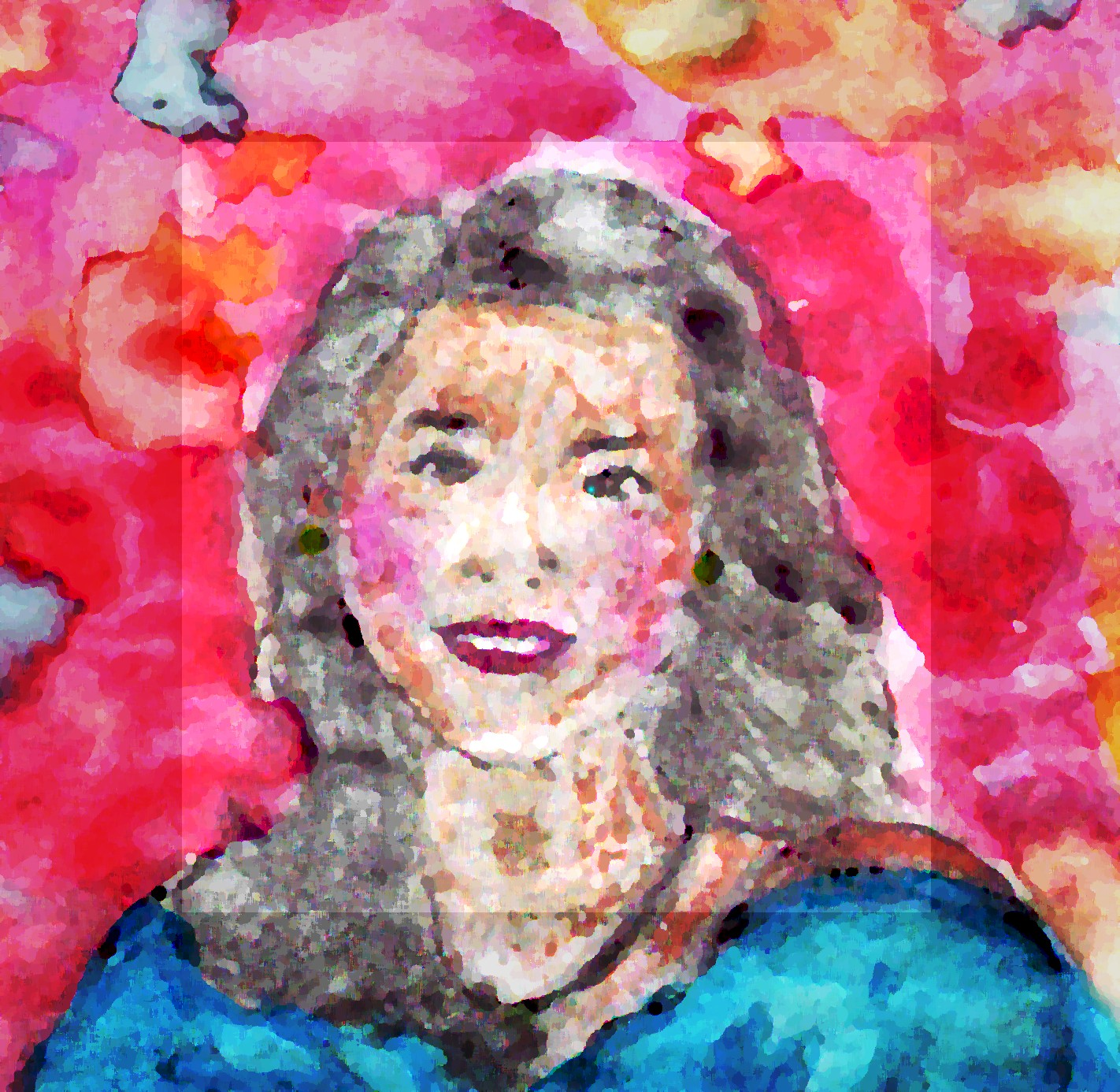 Pencil and watercolour illustration of Teresa Teng, a Taiwanese Singer. Note: computer enhanced.